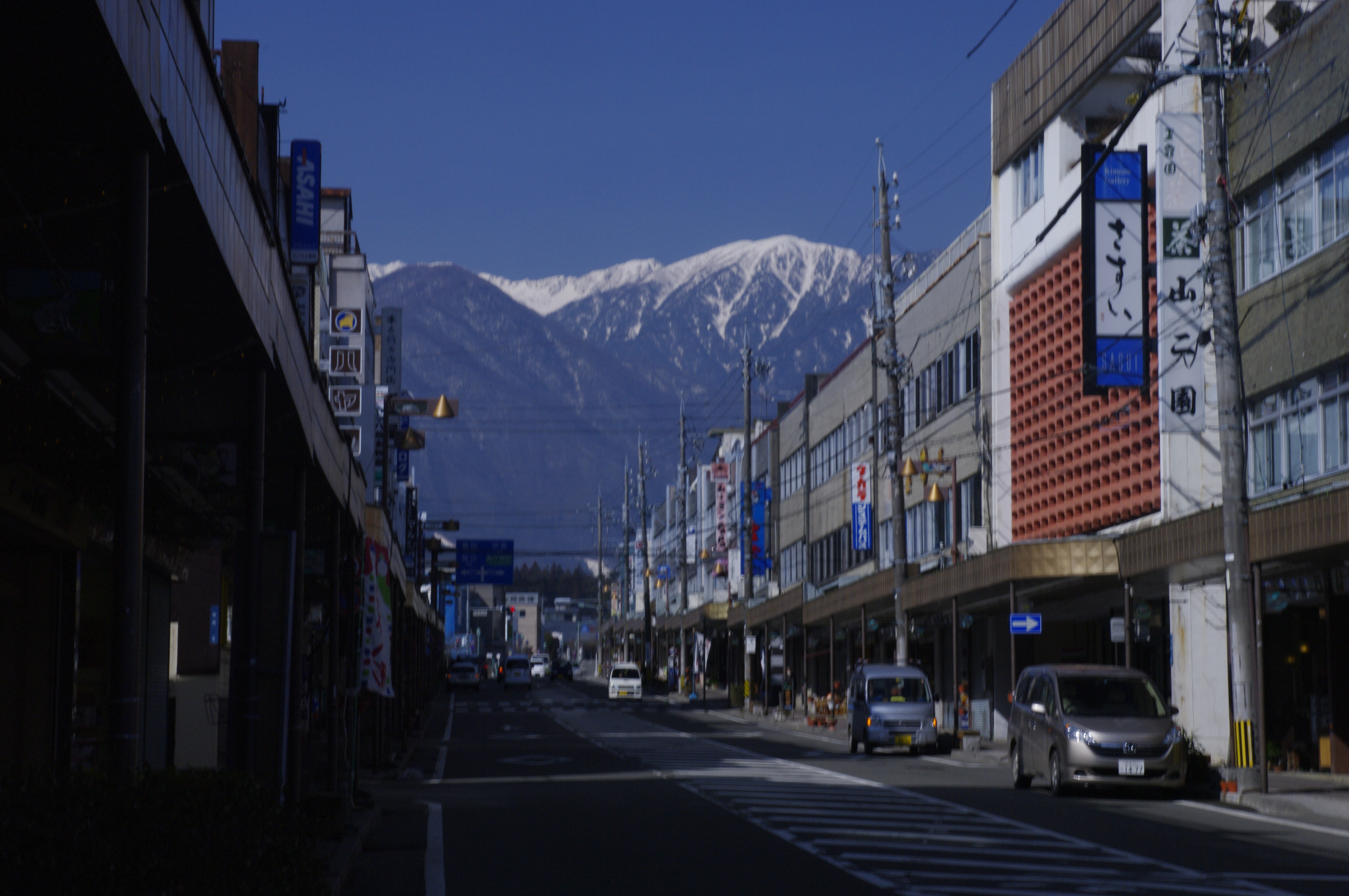 Komagane City,Nagano Prefecture,Japan. Snowy Kiso Mountains can been seen from the City.